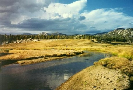 South Fork Kern River headwaters in the Sierra Nevada - Tulare County, California.